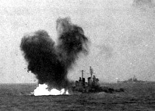 A Japanese aerial torpedo hits the starboard quarter of the U.S. Navy light cruiser USS Houston (CL-81), during the afternoon of 16 October 1944. This view shows burning fuel at the base of the torpedo explosion's water column. Houston had been torpedoed amidships on 14 October, while off Formosa, and was under tow by the fleet ocean tug USS Pawnee (ATF-74) when enemy torpedo planes hit her again. The heavy cruiser USS Canberra (CA-70), also torpedoed off Formosa, is under tow in the distance.